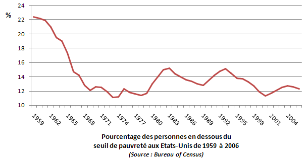 Poverty rate of American families from 1959 to 2006